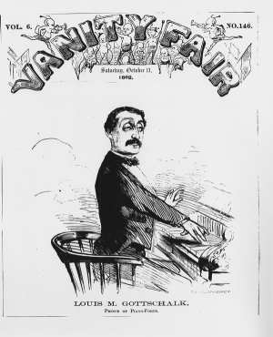 October 11, 1862 cover of "Vanity Fair" magazine featuring "Louis M. Gottschalk, Prince of the Piano-Forte".